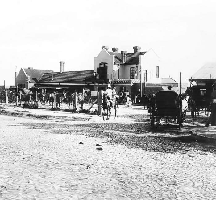 The original Mar del Plata railway station (named "Norte" when the other station was inaugurated in 1910).